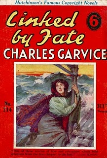 Cover image Linked by Fate (1903) by Charles Garvice (1850-1920)